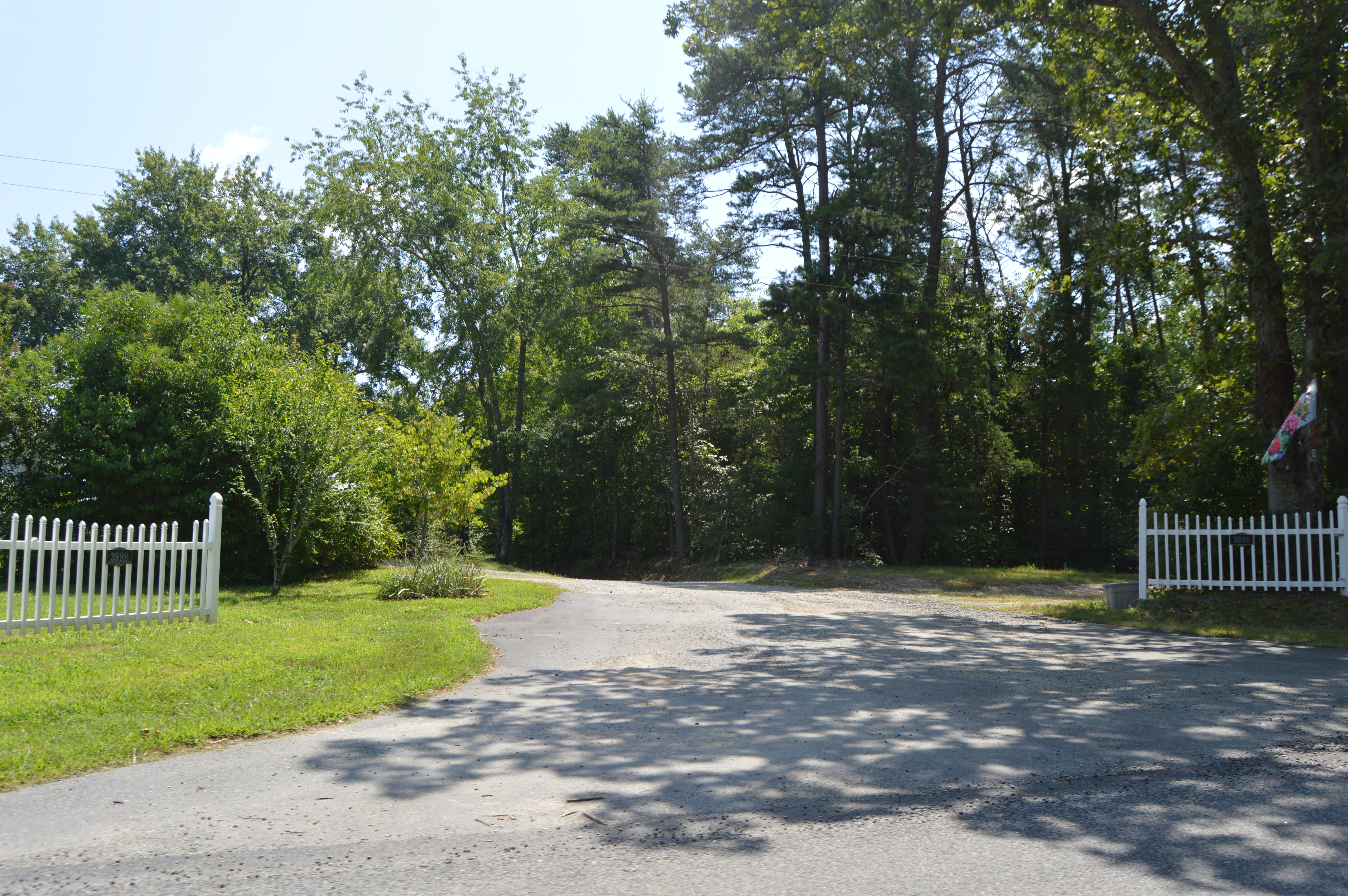 Entrance to the Bloomington estate, located along Yanceyville Road south of Louisa in Louisa County, Virginia, United States. The estate is listed on the National Register of Historic Places.